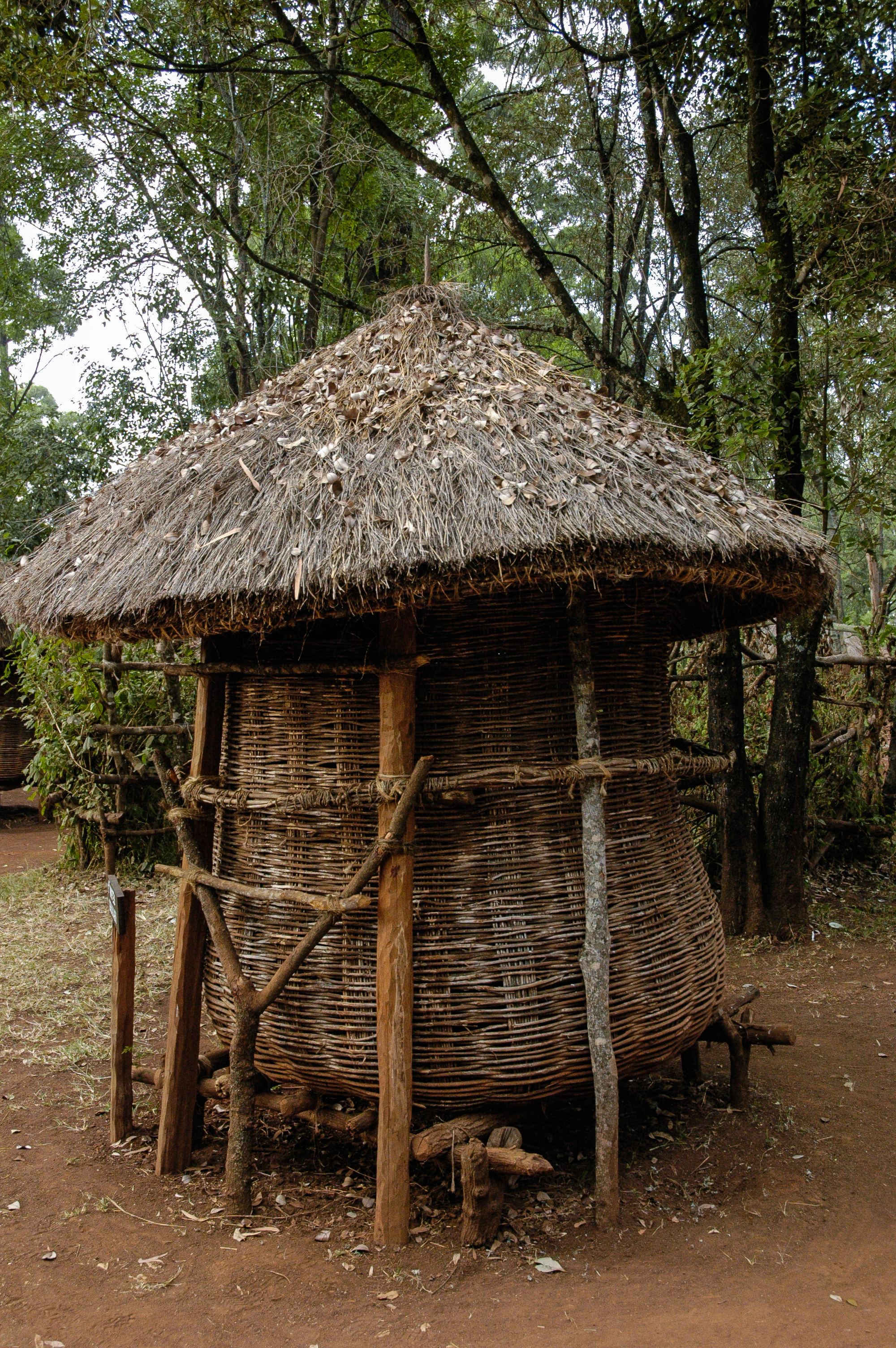 Luo village at Bomas of Kenya near Nairobi